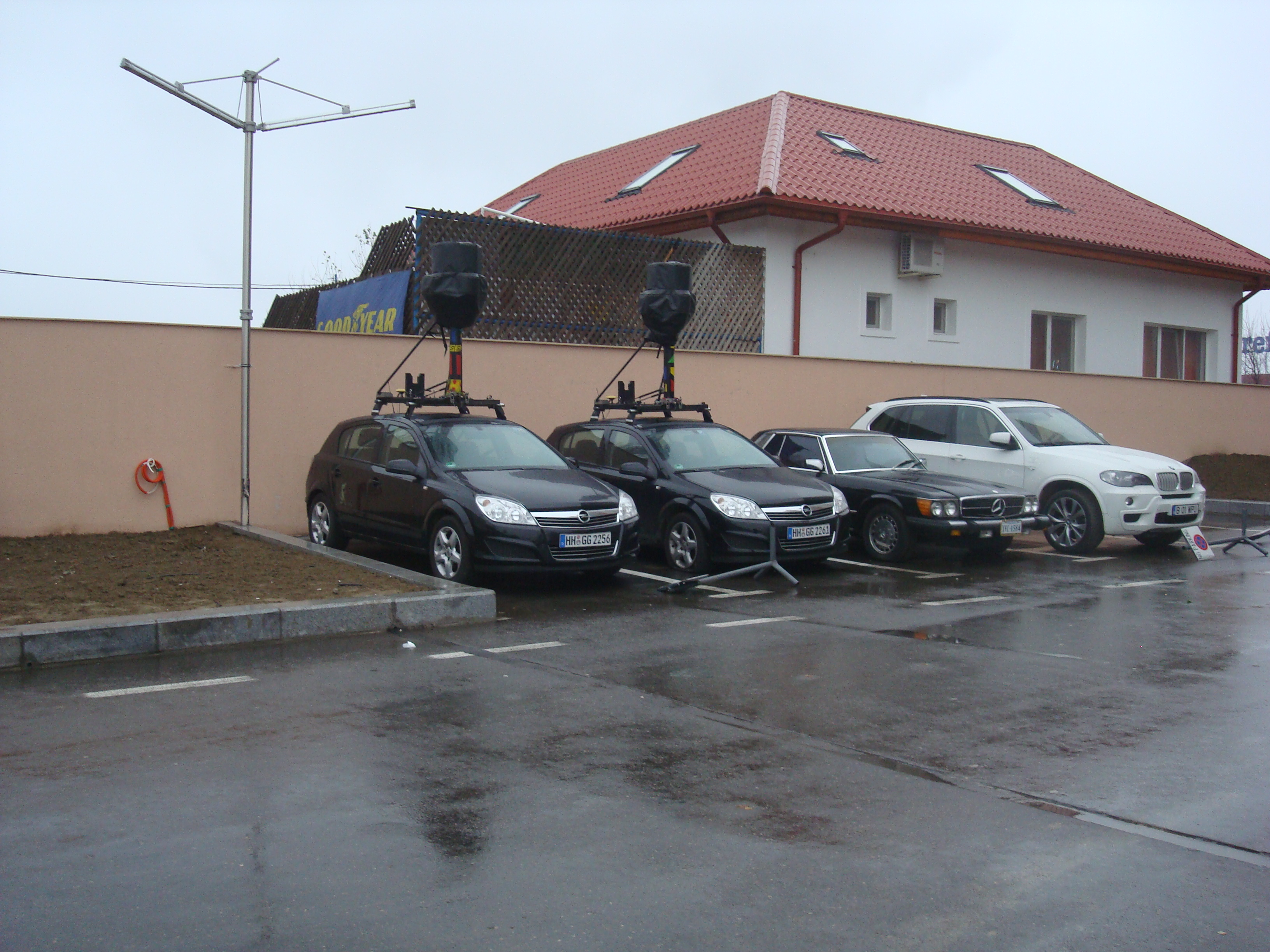 Google Street View Car at Rin Grand Hotel in Bucharest, Romania.